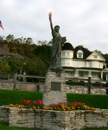 Lady Liberty at Haldimand Bay, Mackinac Island, Michigan Part of Strengthen the Arm of Liberty